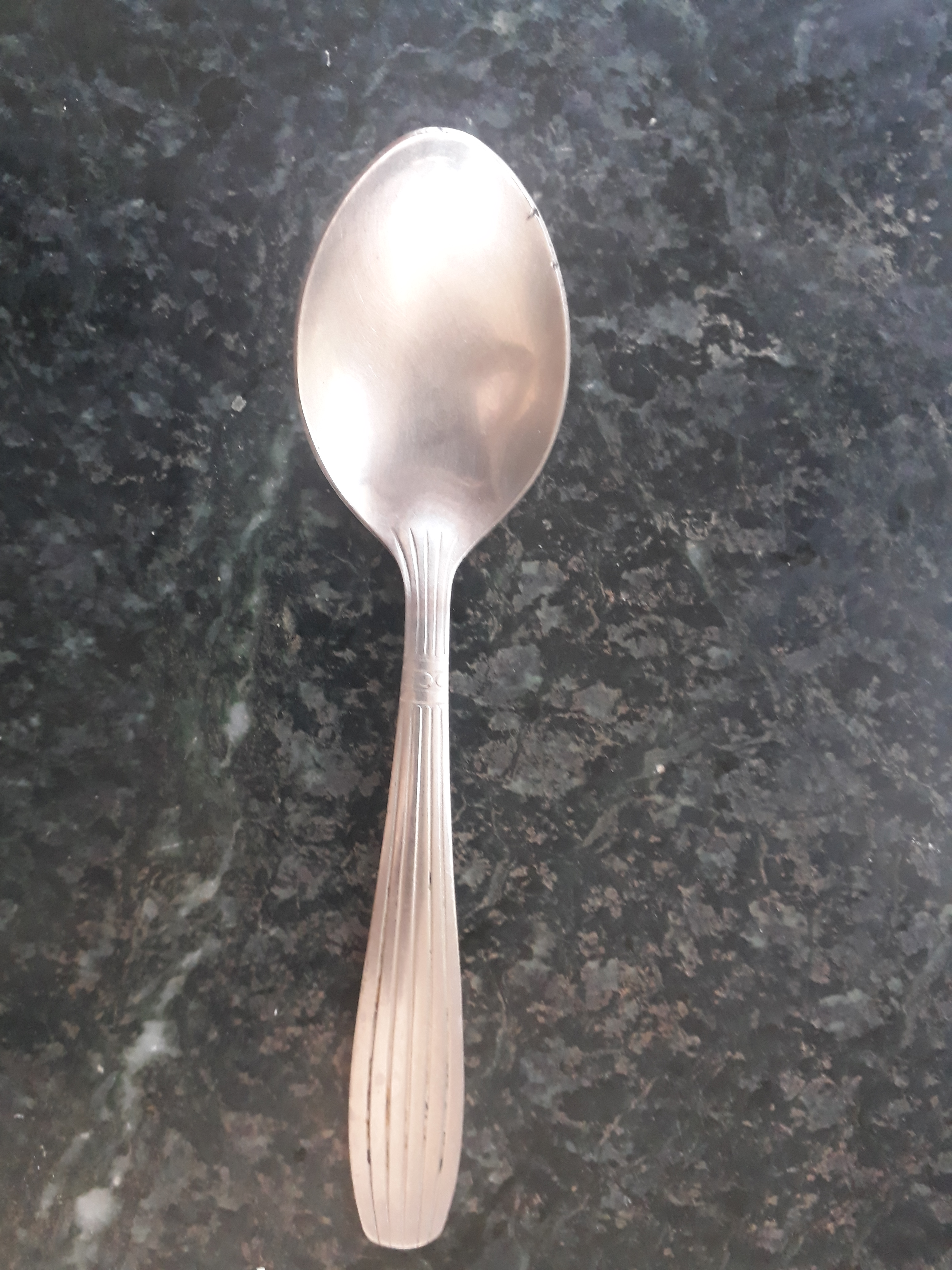 पाकसाधने - चमचा